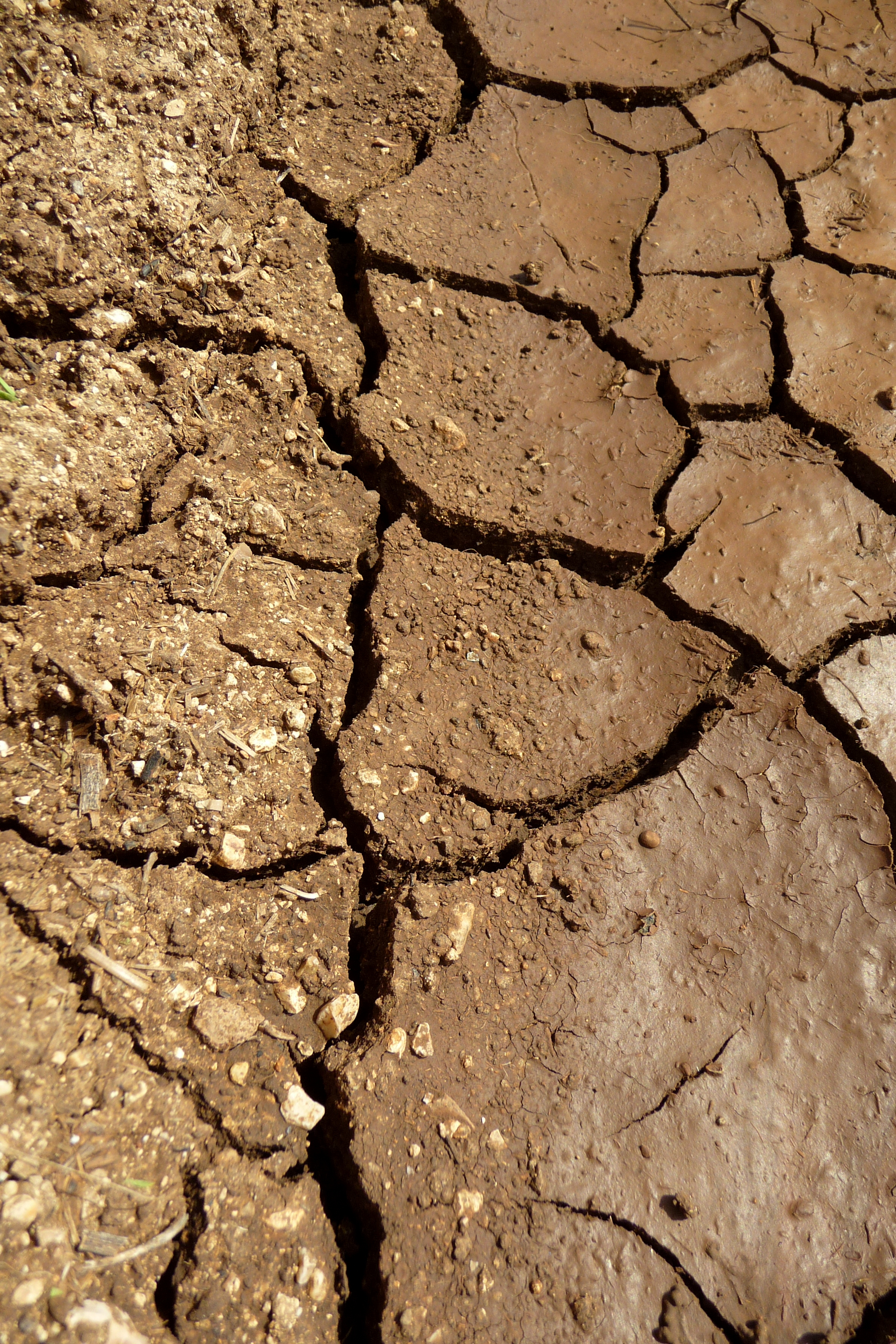 Carmel Park